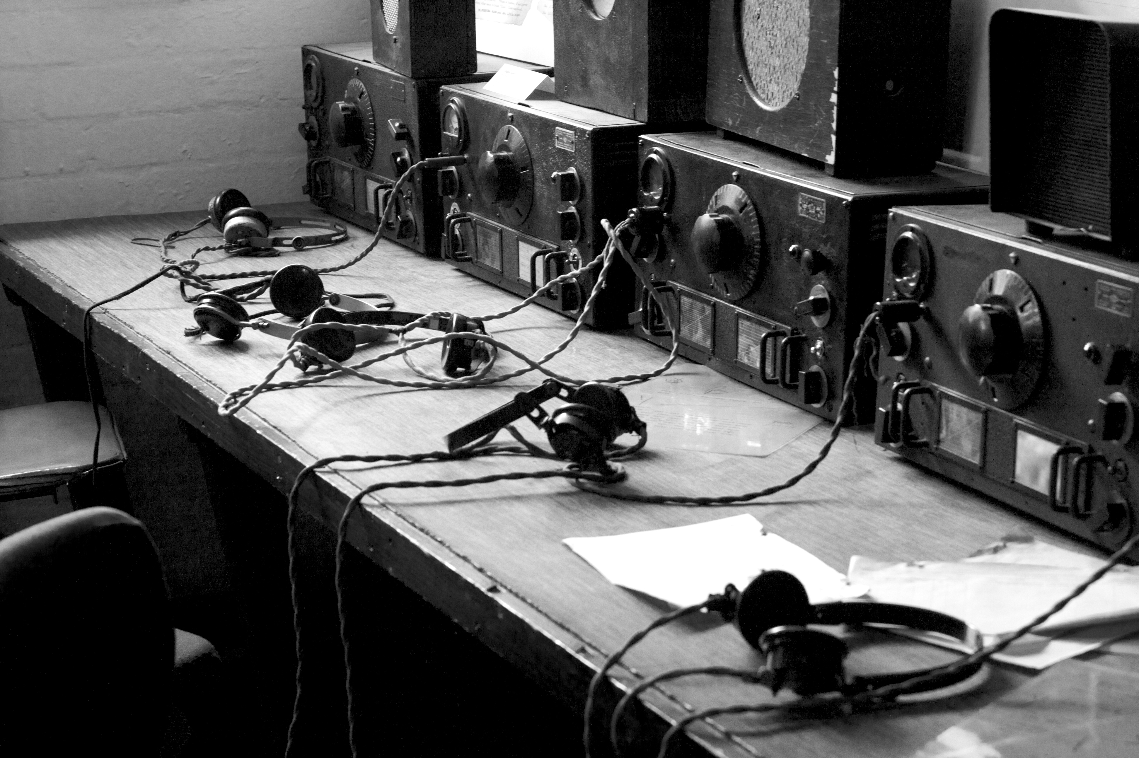 Operators are standing by